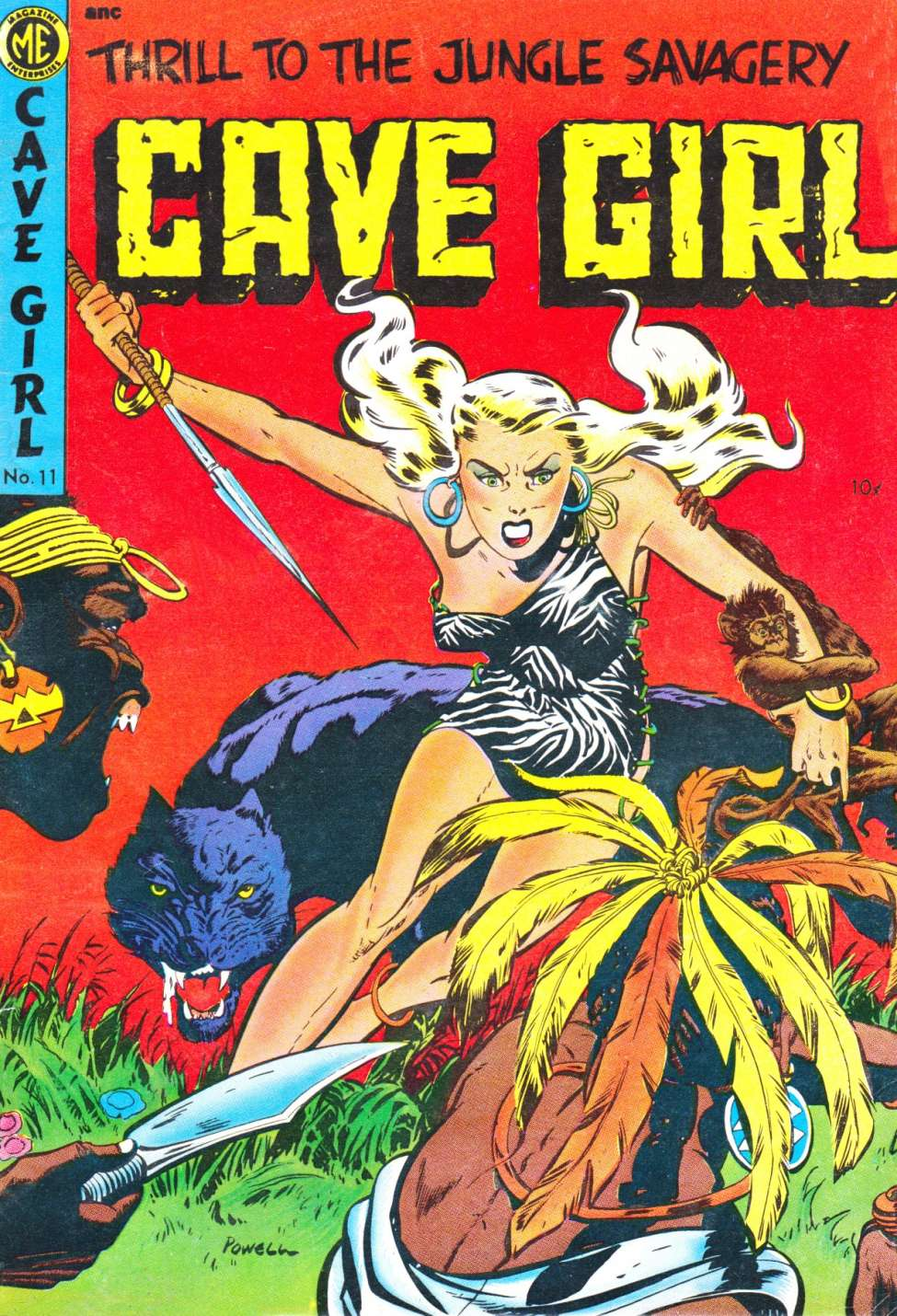 Cover, Cave Girl #11 (1953; first issue) - Magazine Enterprises (defunct company). Cover art by Bob Powell